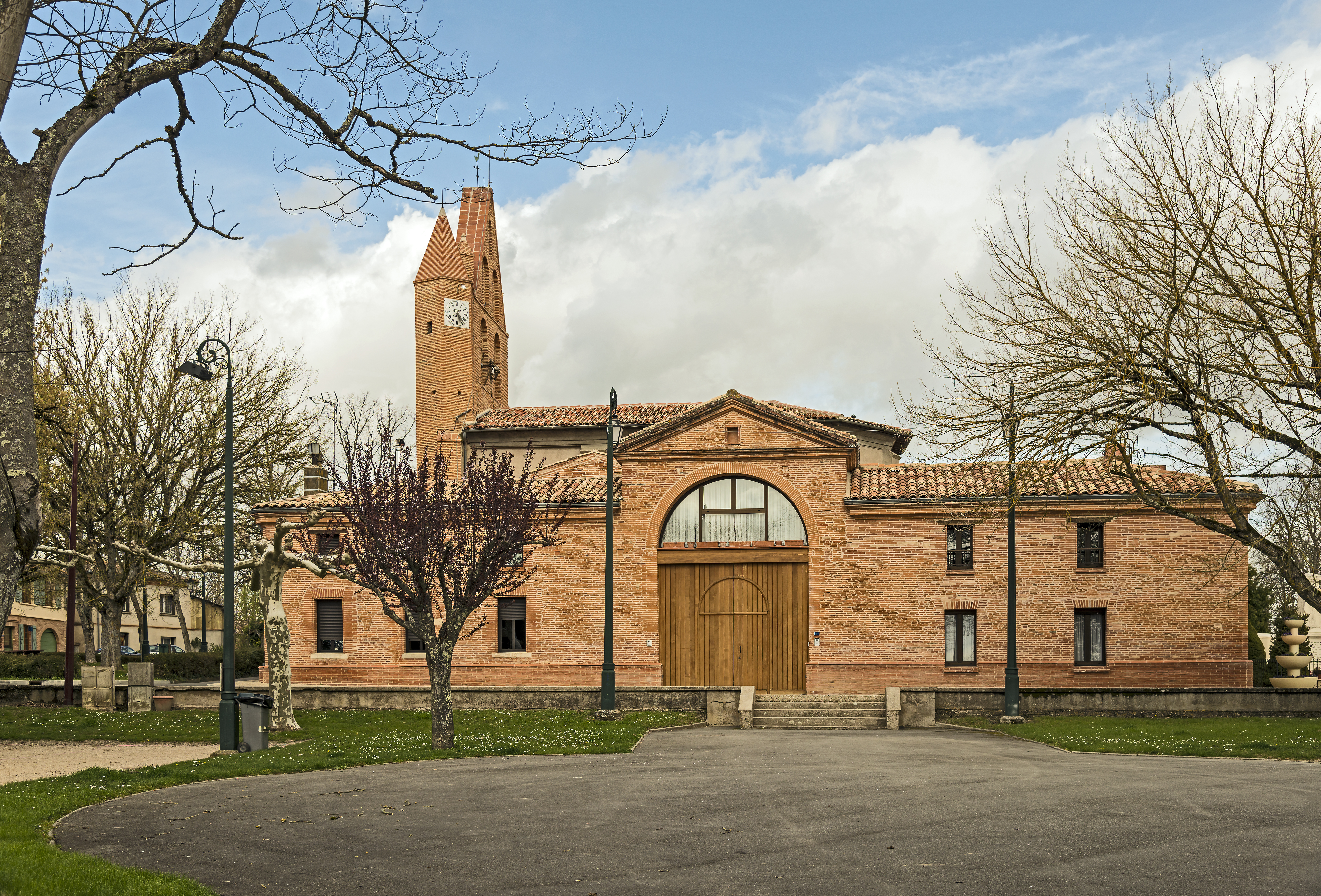 The village center of Bazus, Haute-Garonne, France - The St. Peter's Square and the church.